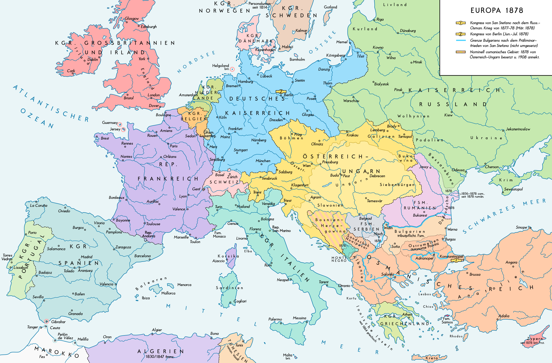 Europe 1878. Historical map of the political situation after the Congress of Berlin and the territorial and political rearrangement of the Balkan Peninsula. Please don't alter the map, when you think there something not written or depicted correctly. Leave a message at the talk page of the file. After a verificiation and a possible discussion, i will upload a new map version with all new changes. This prevents an unnecessary waste of disc space and ensures a good result, aesthetically and contentwise. - The author.